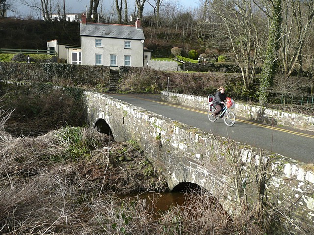 Wiseman's Bridge There are two stone arches. The main stream goes under the far one, whilst the near one seems to be for a loop through a marshy area. Tramway Cottage is in the background.